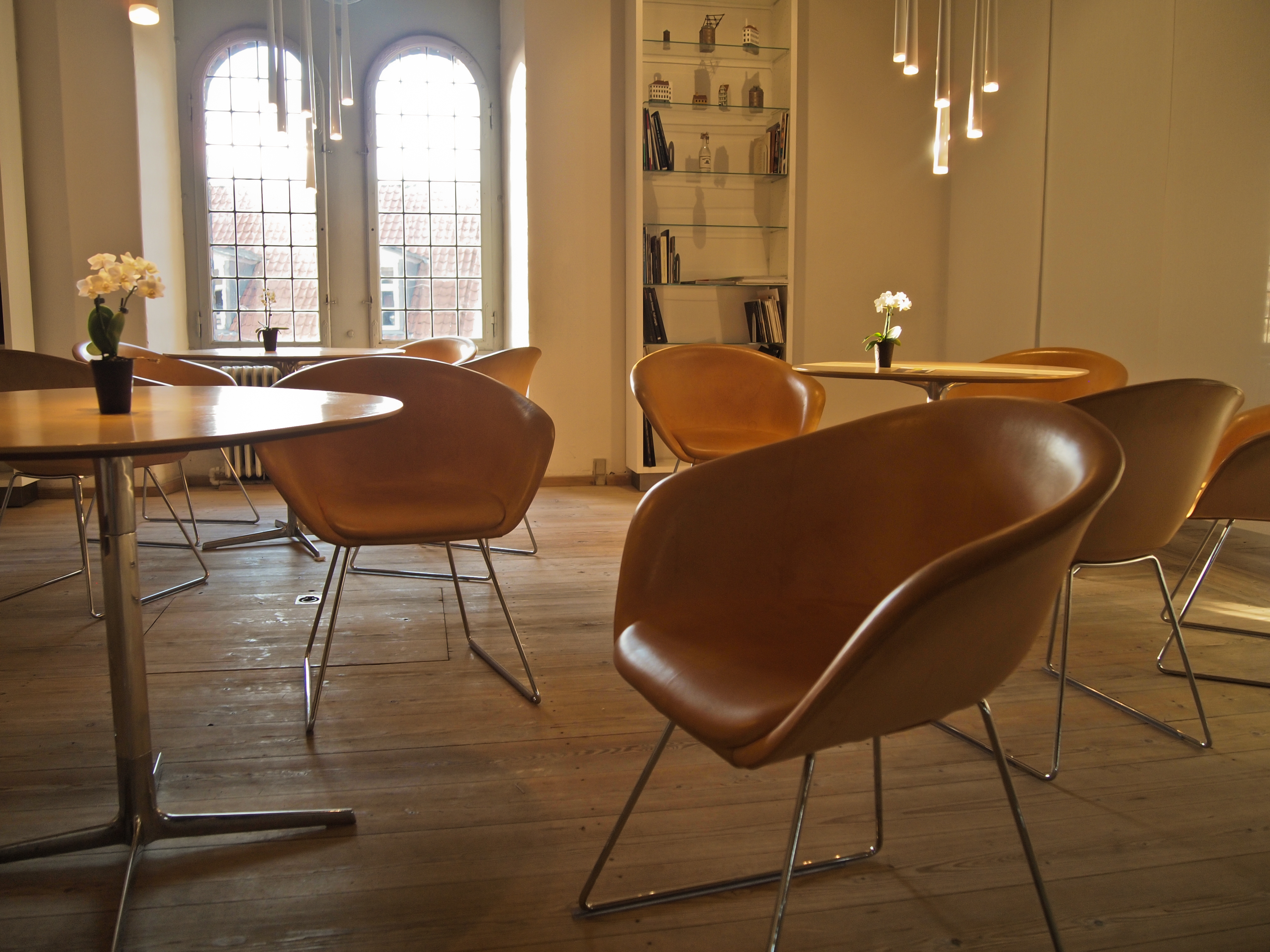 The Library Hall above Trinity Church at the Round Tower in Copenhagen, Denmark